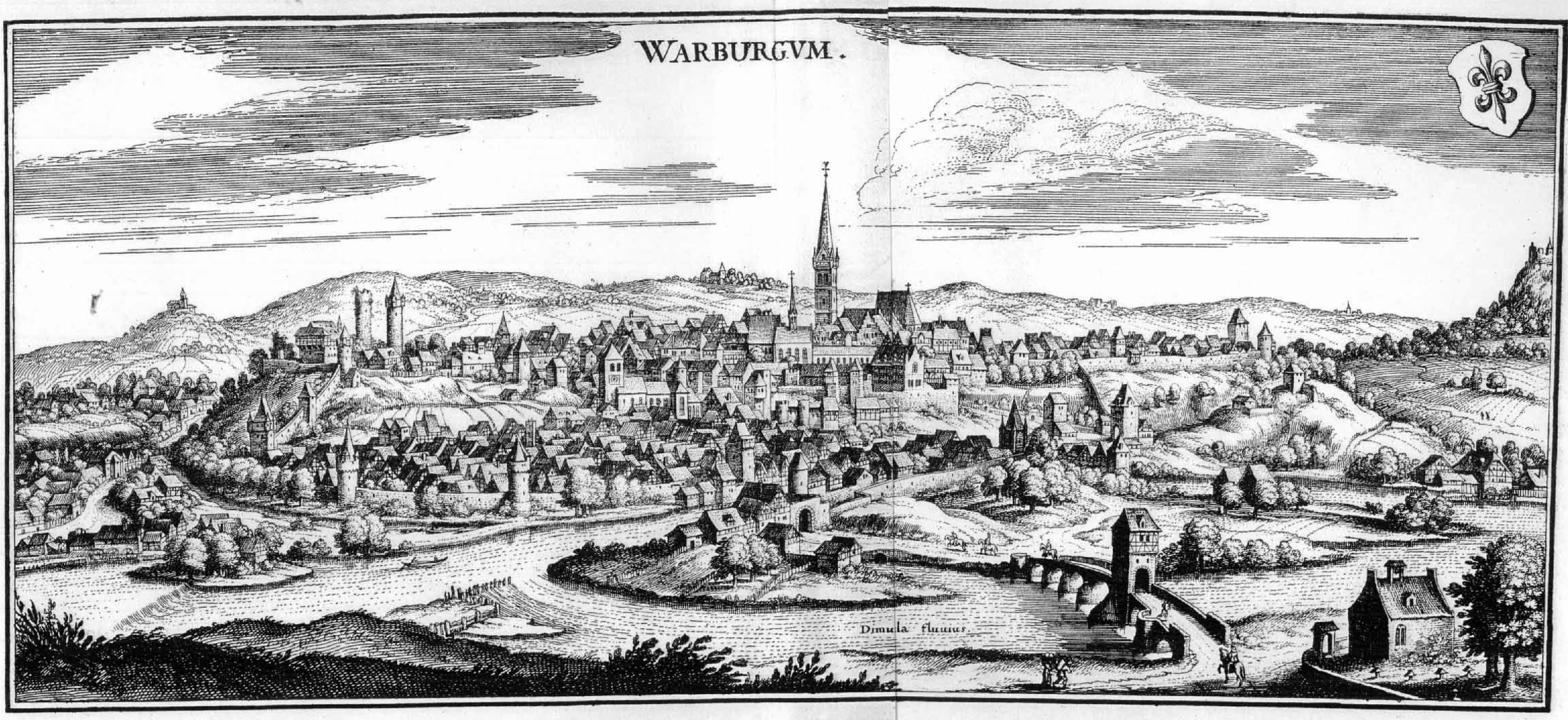 Engraving by Matthäus Merian showing the city Warburg. The illustration is from the Topographia Westphaliae (= Topographia Germaniae, Volume 8) published 1647.